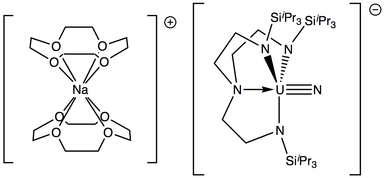 Uranium nitrido complex [Na(12-crown-4)2][N≡U−N(CH2CH2Ntips)3] reported in: David M. King, Floriana Tuna, Eric J. L. McInnes, Jonathan McMaster, William Lewis, Alexander J. Blake, Stephen T. Liddle. Synthesis and Structure of a Terminal Uranium Nitride Complex. Science 2012, 337 (6095), 717-720.